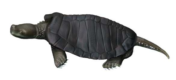 Crop of file in filename